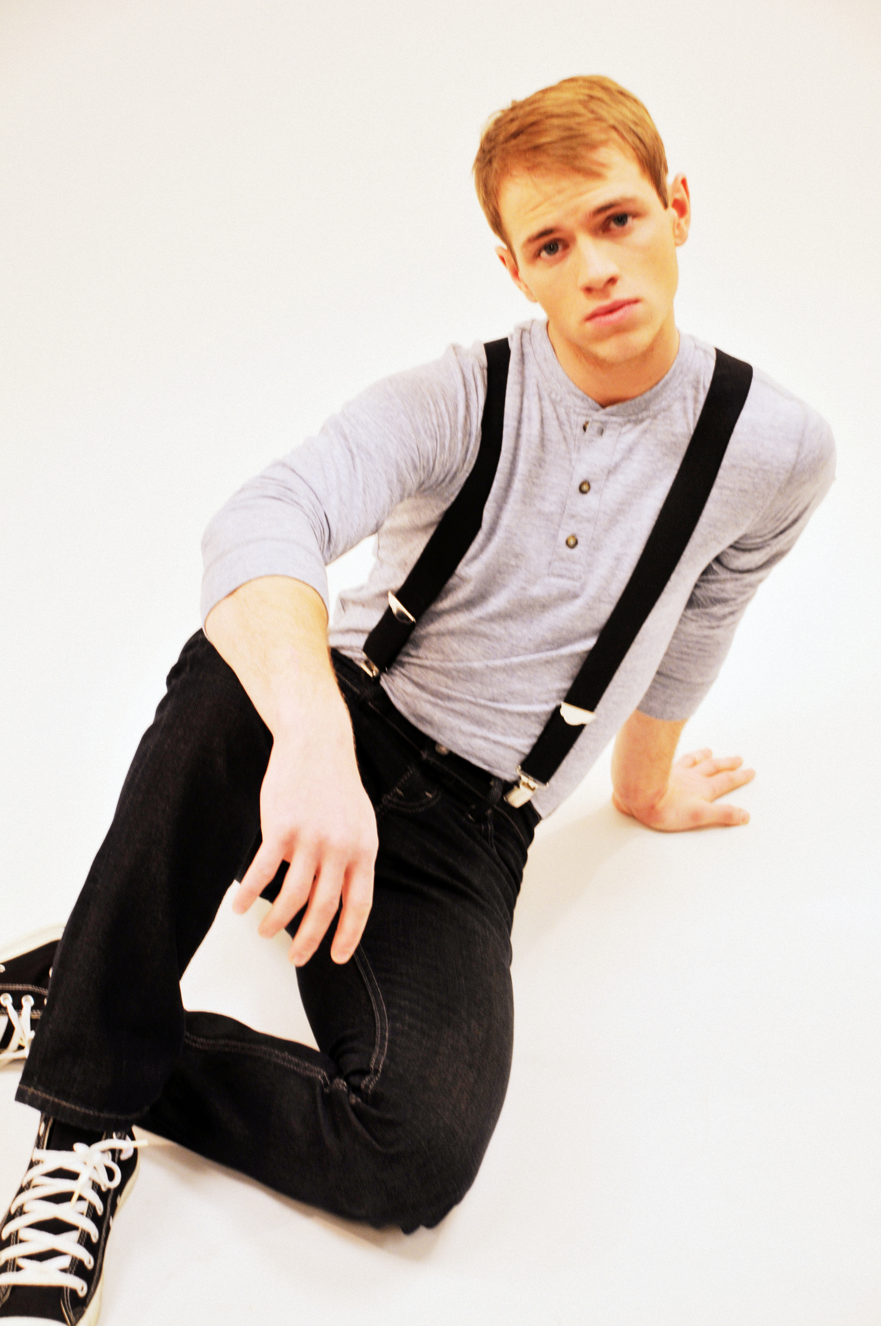 Josh Wilson Suspenders